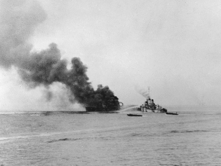 The U.S. Navy high-speed transport USS Ward (APD-16) burning in Ormoc Bay, Leyte, Philippine Islands, after she was hit by a Kamikaze on 7 December 1944. The destroyer USS O'Brien (DD-725) is fighting fires from alongside, as landing craft circle to rescue survivors.